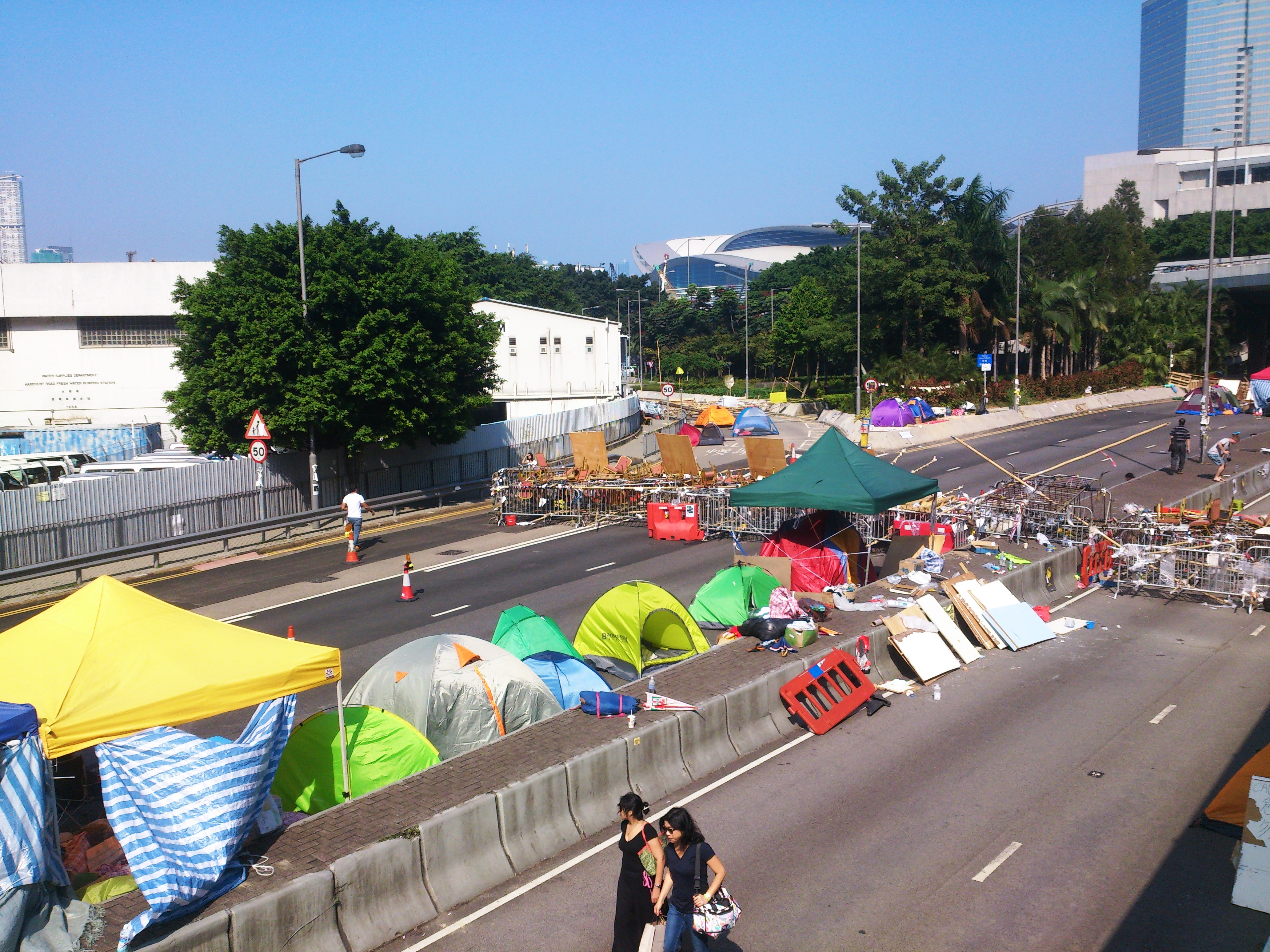 Tents on Harcourt Road near Performing Arts Avenue on 2014-10-18